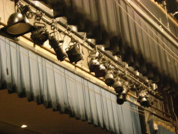 An electrics batten in a theater which has many stage lights on it. From left to right: Scoop,Fresnel, Source Four Jr, Fresnel,2 PARNels, 2 Lekos, leko with top hat, fresnel with top hat, ande, barely visible fresnel